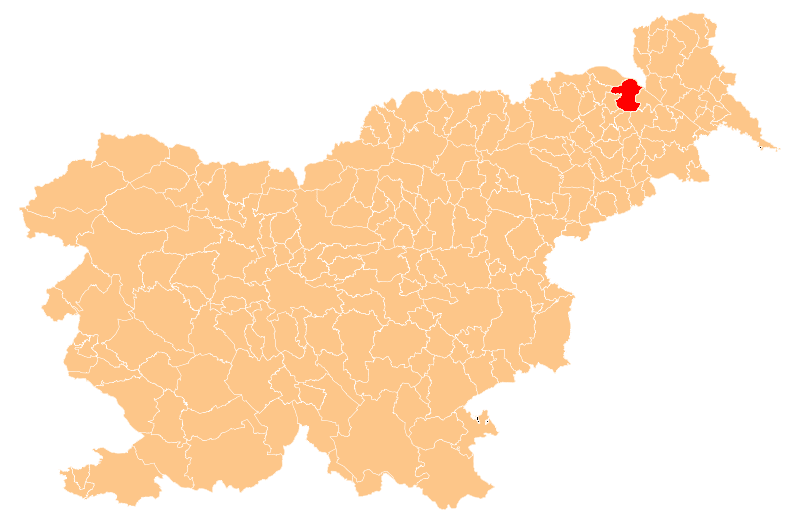 radgona obcina